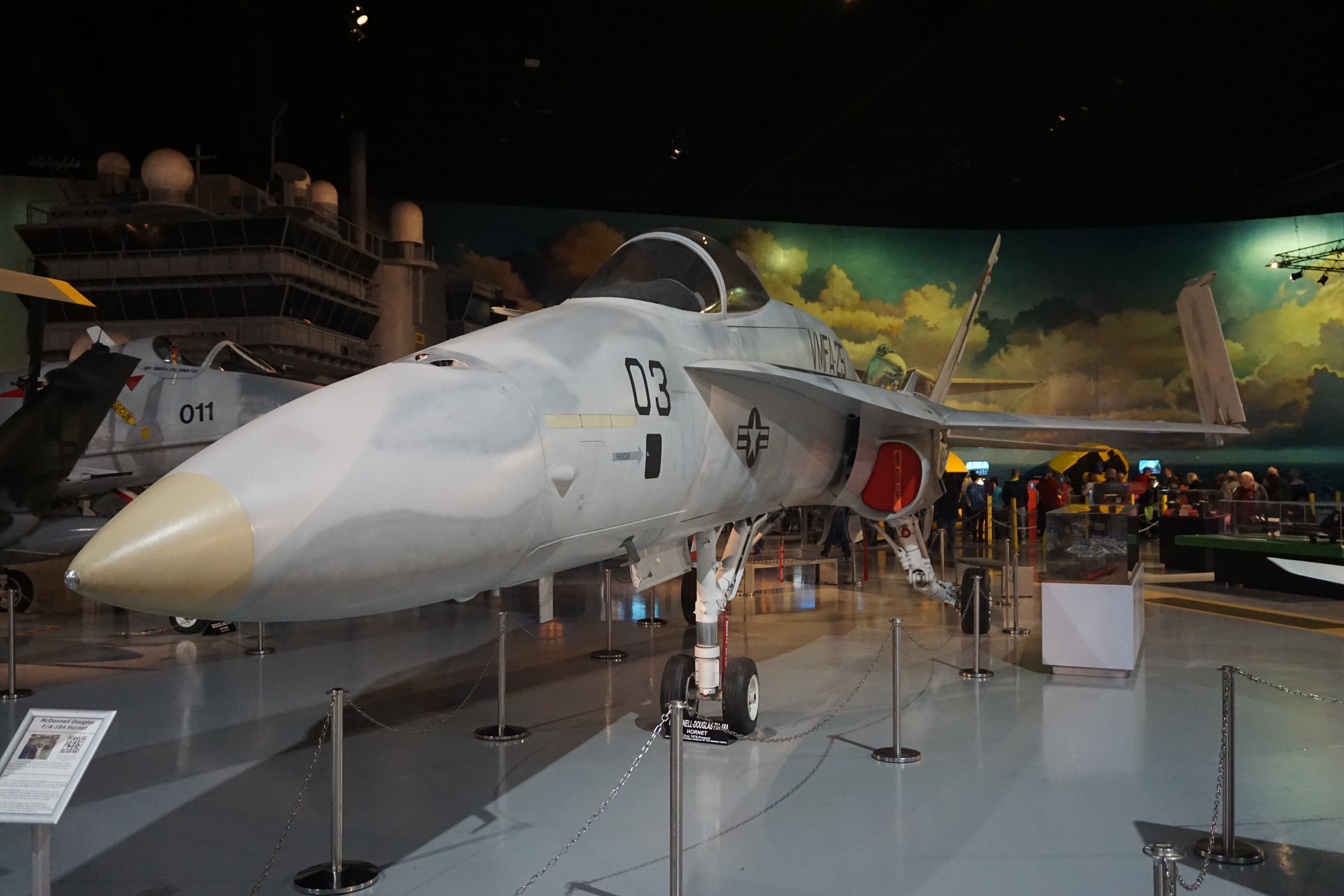 A McDonnell Douglas F/A-18A Hornet on display at the Air Zoo at Kalamazoo/Battle Creek International Airport in Portage, Michigan (United States).